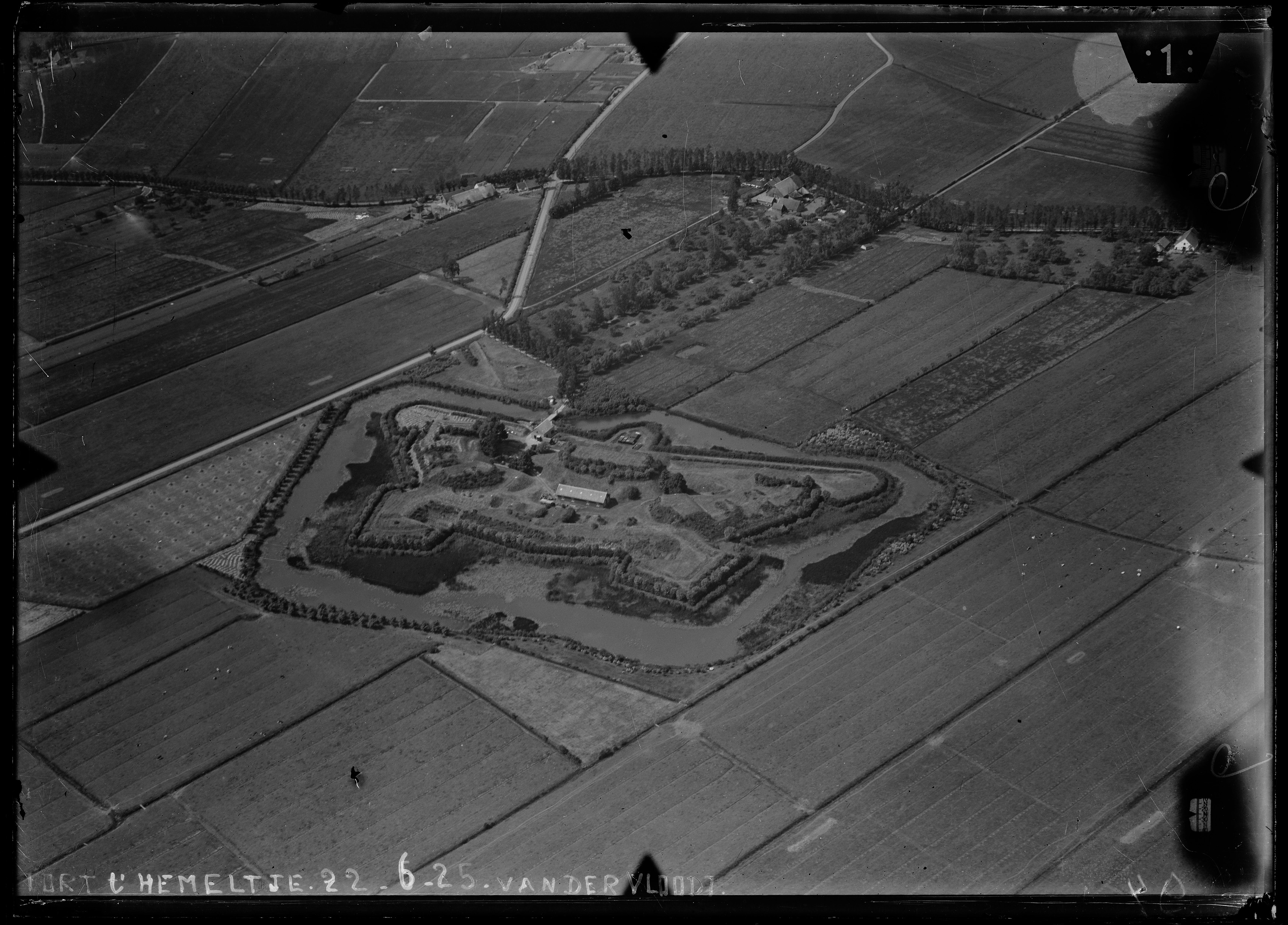 Aerial photograph of Fort 't Hemeltje, The Netherlands